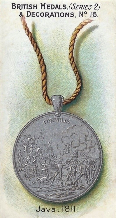 Medal awarded to Honourable East India Company native soldiers for Java campaign of 1811, depicted on Taddy cigarette card